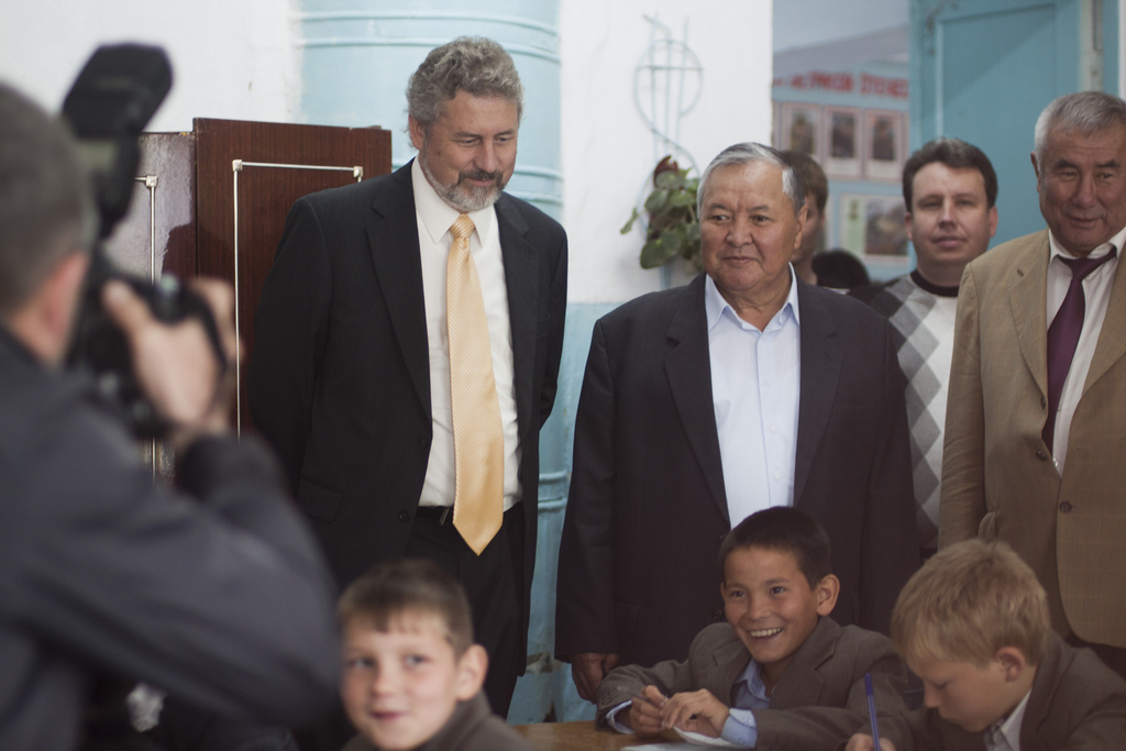 Larry Memmott, Chargé d'Affaires of the U.S. Embassy in Bishkek, Kyrgyzstan, presents two grants from the U.S. Government to support the rehabilitation of the Krasnaya Rechka orphanage in Kyrgyzstan, on April 28, 2011. [State Department photo/ Public Domain]